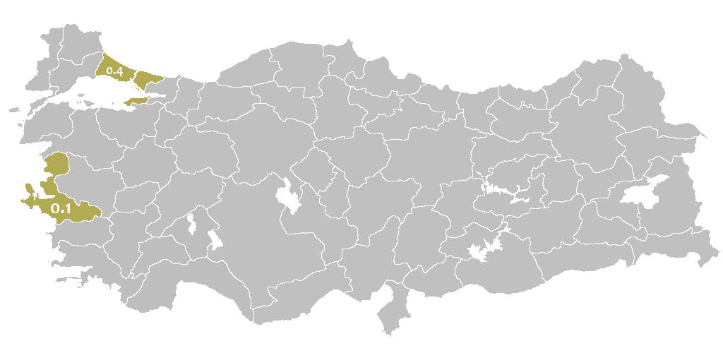 This map shows the distribution of people who spoke Jewish (Ladino, Hebrew, Yiddish etc.) languages in 1965's Turkey.